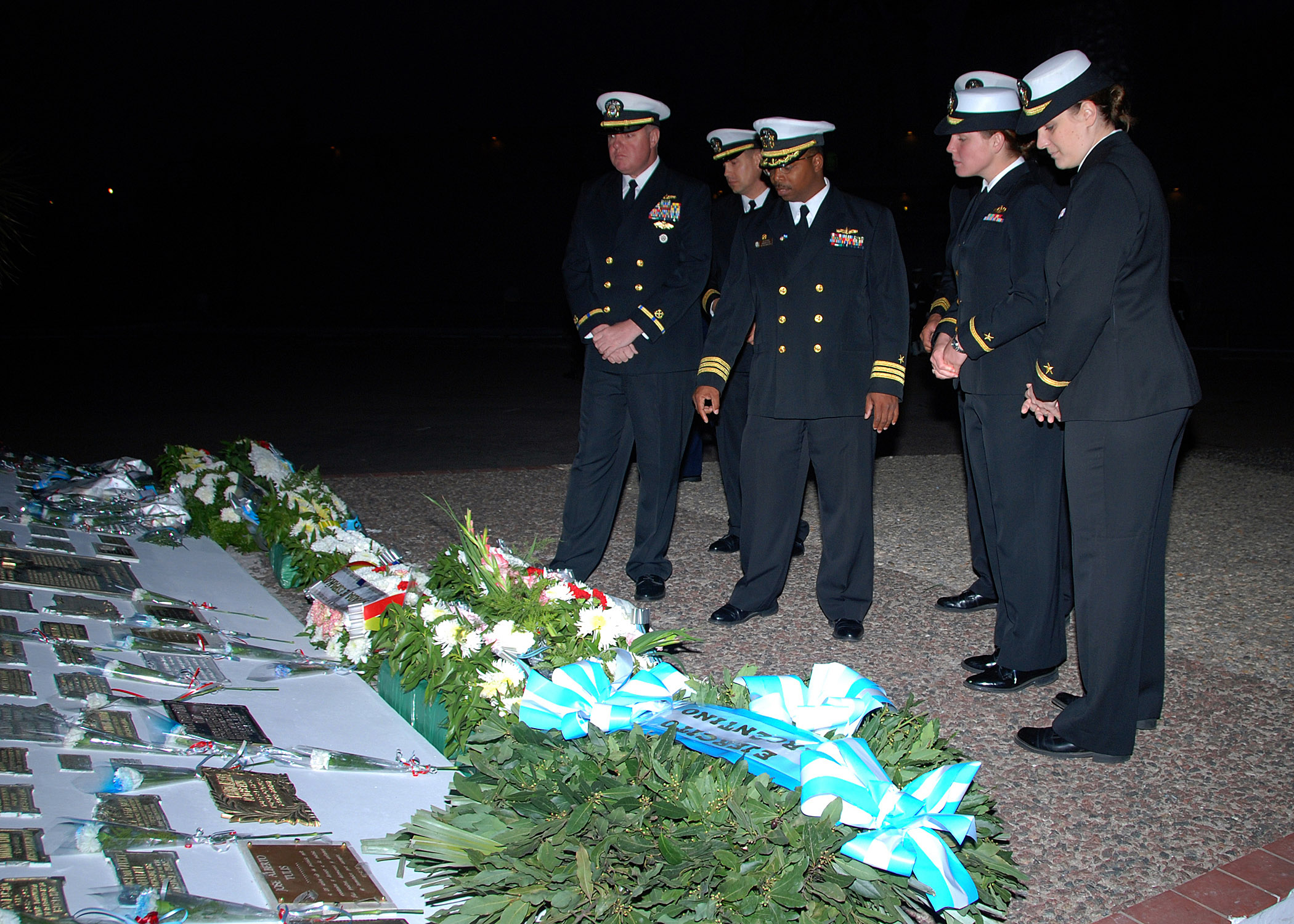 PUERTO BELGRANO, Argentina (May 2, 2007) – USS Pearl Harbor (LSD 52) Commanding Officer, Cmdr. Victor Cooper, and fellow Pearl Harbor officers pay homage to a memorial dedicated to the Argentinean ship ARA General Belgrano during a 25th anniversary remembrance service. The ARA General Belgrano (ex USS Phoenix (CL-46)) sank along with 323 members of her crew. U.S. Navy photo by Mass Communication Specialist Seaman Damien Horvath (RELEASED)